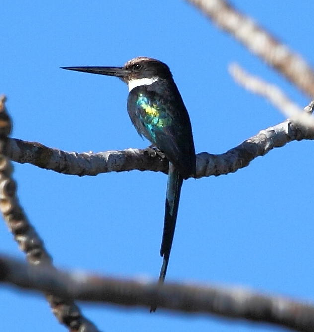 Paradise Jacamar at Novo Mundo - MT - Brazil